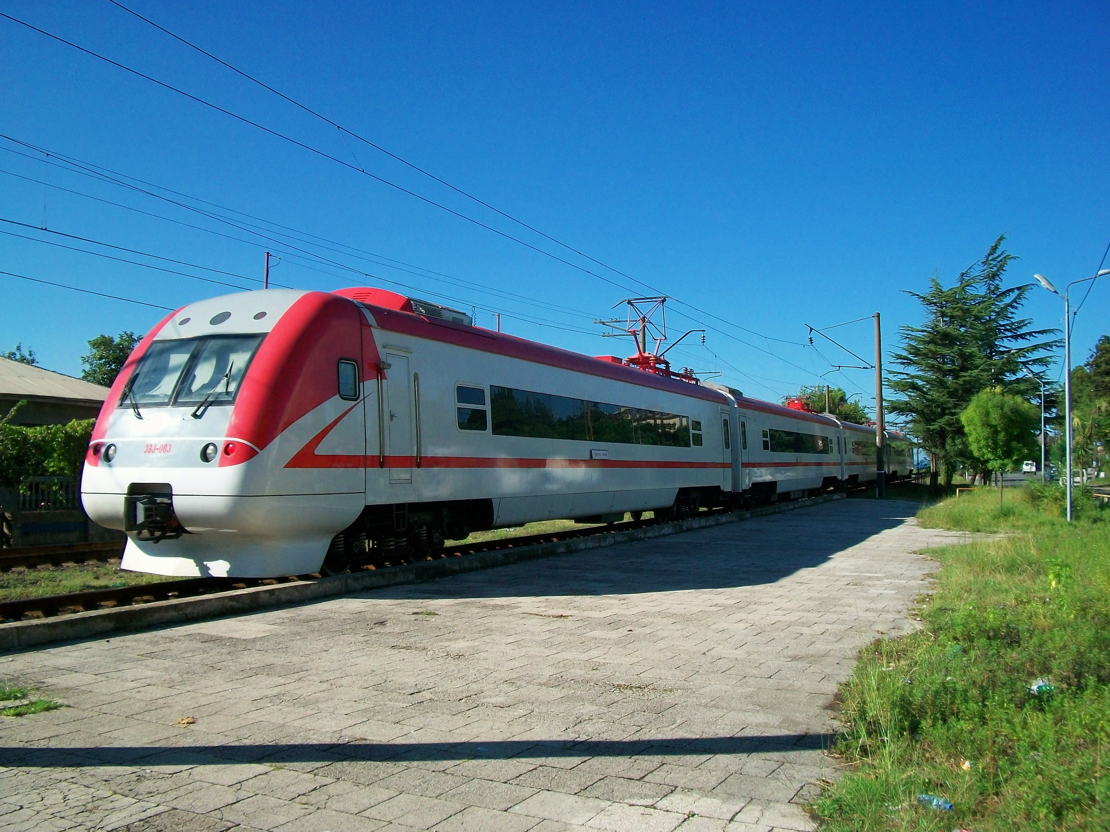 VMK-003 type EMU going to Tbilisi from Batumi